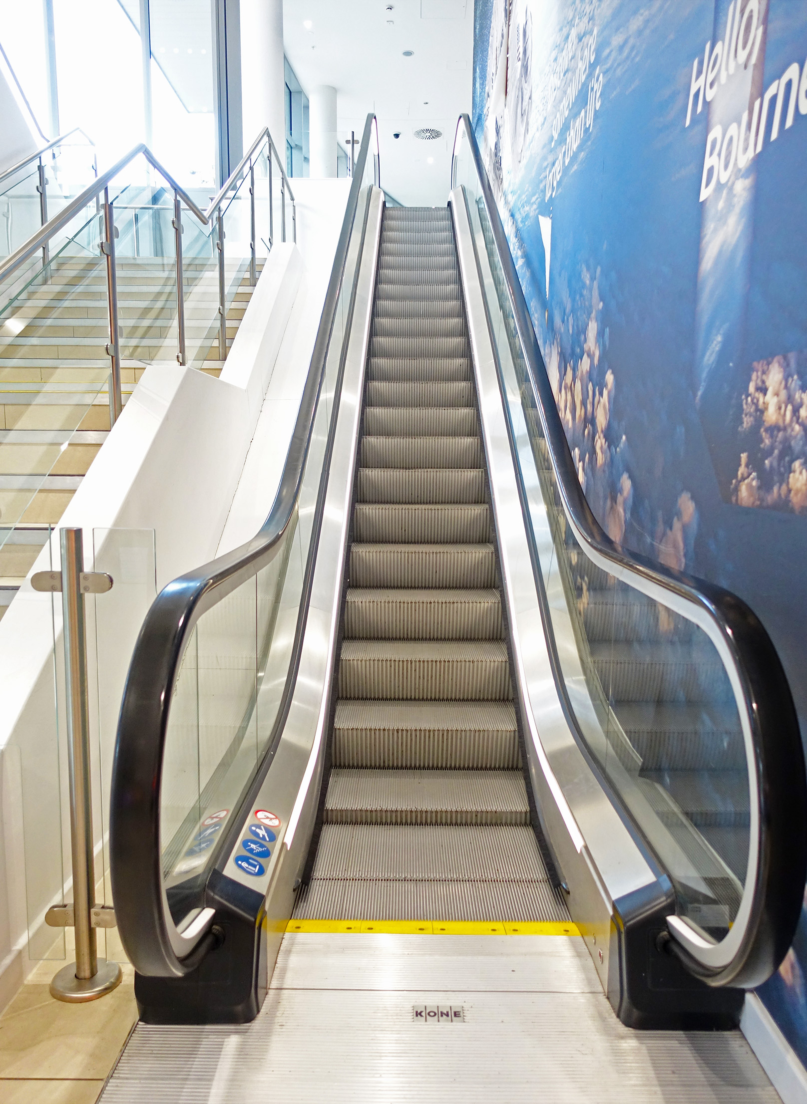 KONE escalators in Bournemouth.